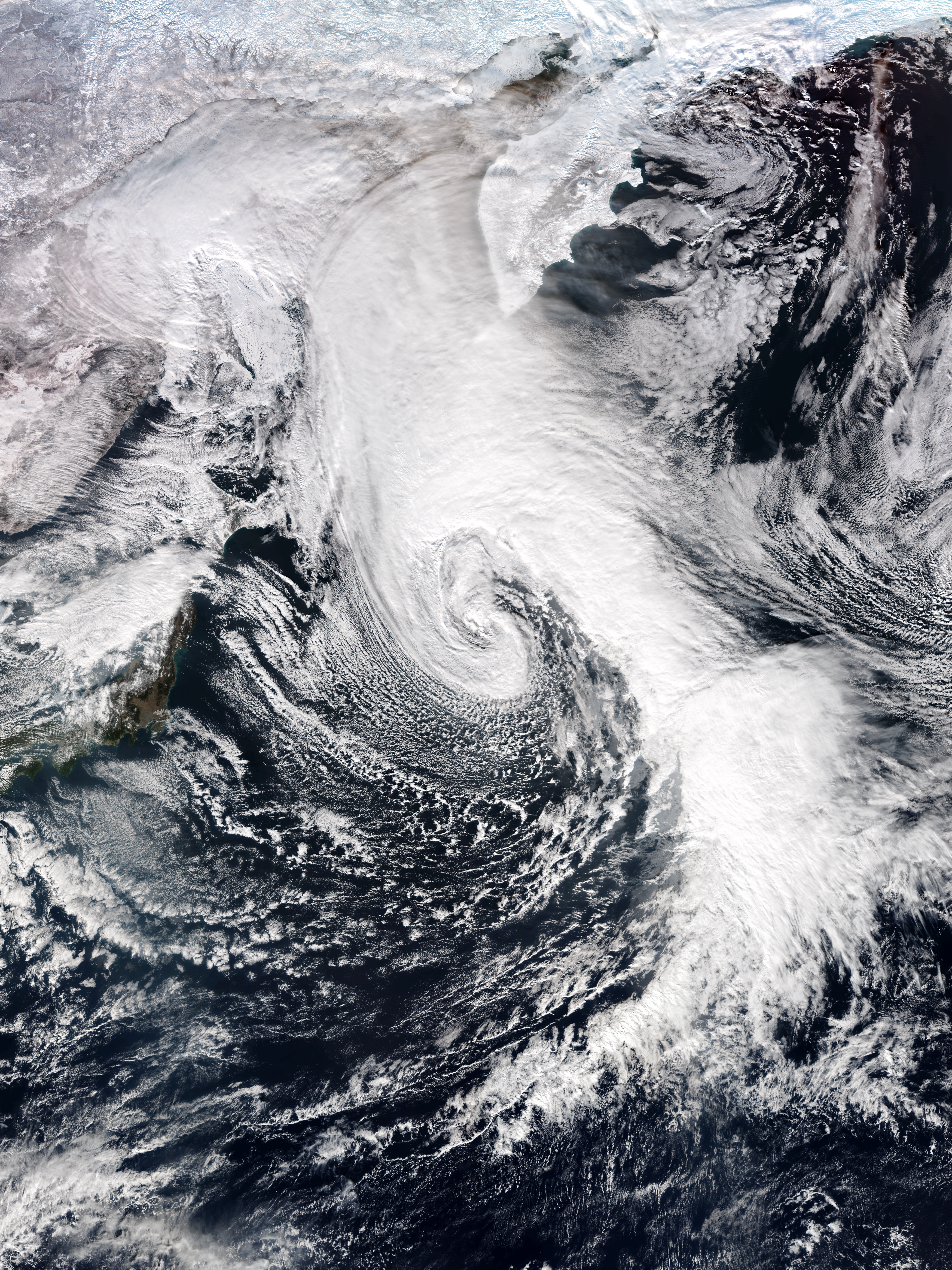 A powerful extratropical cyclone east of Japan on January 10, 2017. Its ten-minute maximum sustained winds were 65 knots at that time, equivalent to a typhoon.